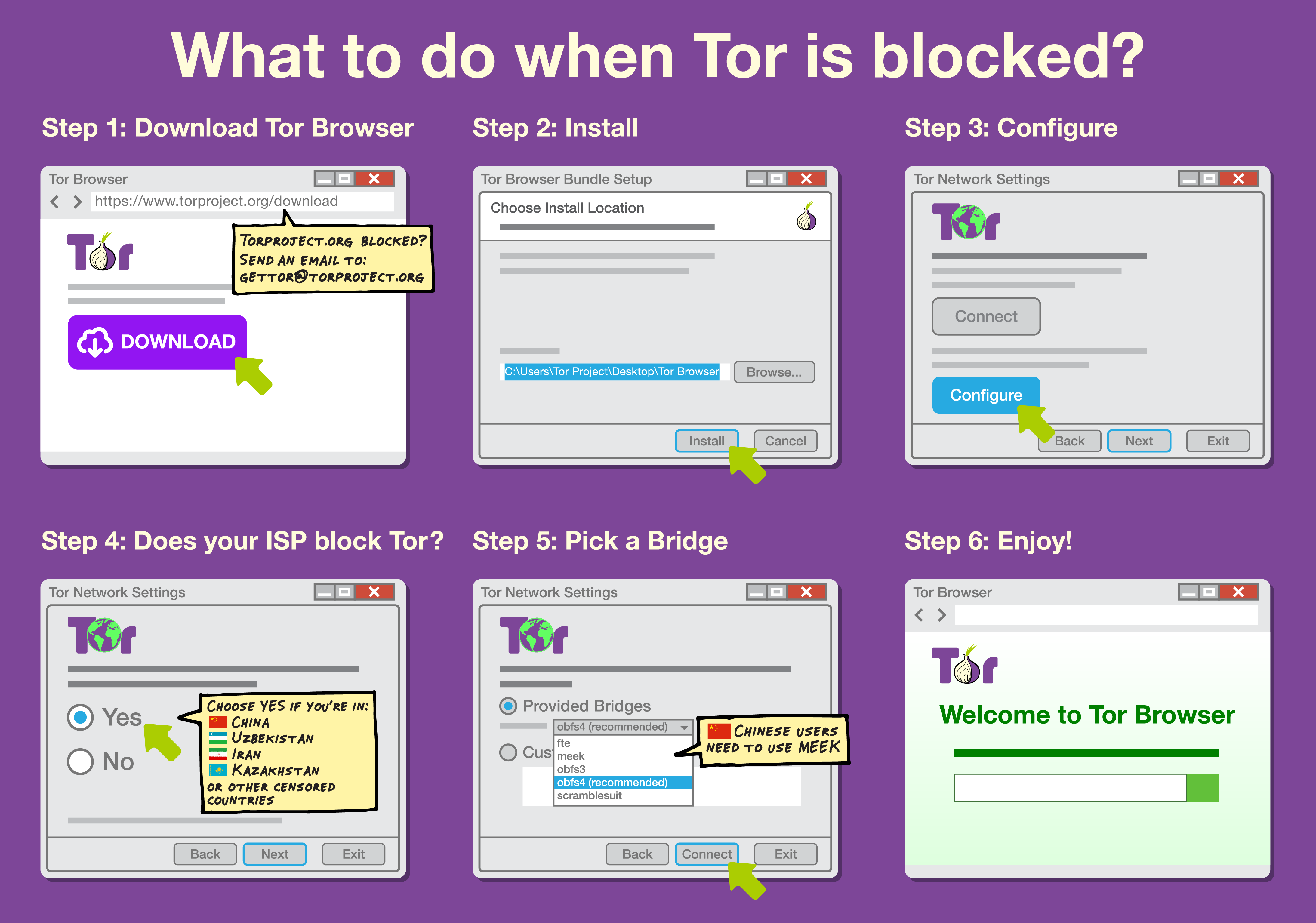 Graphic from Tor Project providing directions for using pluggable transports to bypass censorship.